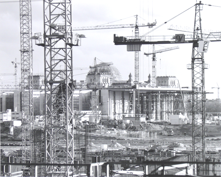 Cityview of Berlin Reichstag in 2000